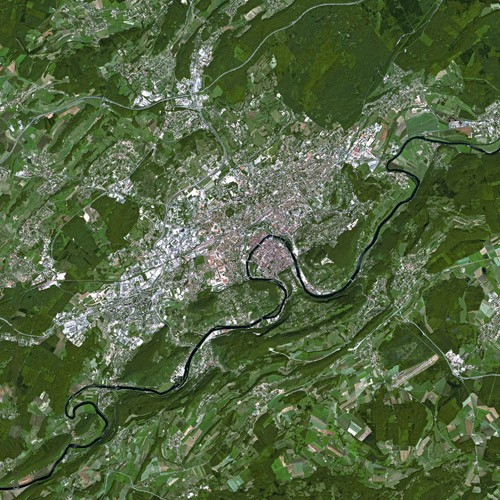 Besancon by SPOT Satellite